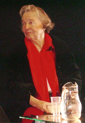 Finnish poet Eeva Kilpi at the Turku International Book Fair.